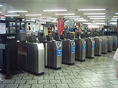 Entrance, unknown station of the London Underground, London, UK